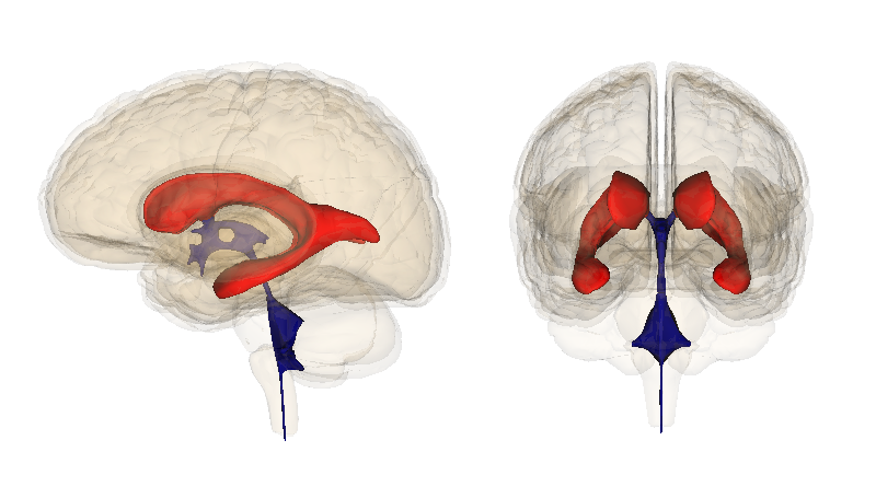 lateral ventricle. Images are from Anatomography maintained by Life Science Databases(LSDB).